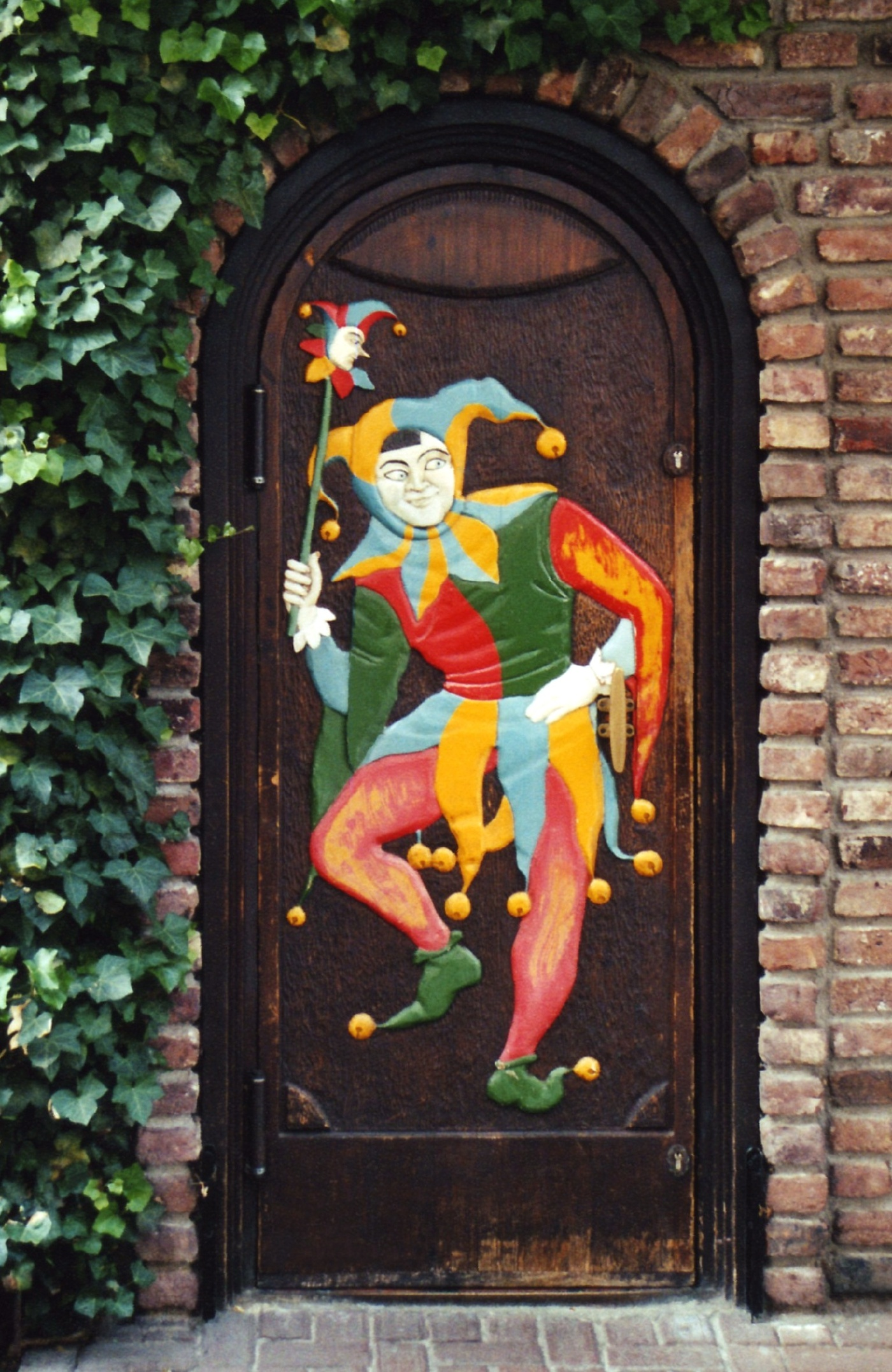 This fool did not follow the rules and was punished by being crushed under a heavy wooden door.